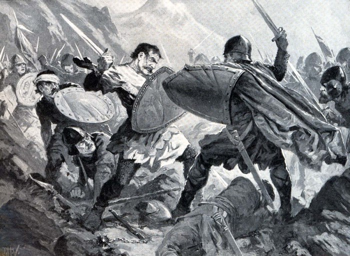 The death of Tsar Michael III of Bulgaria